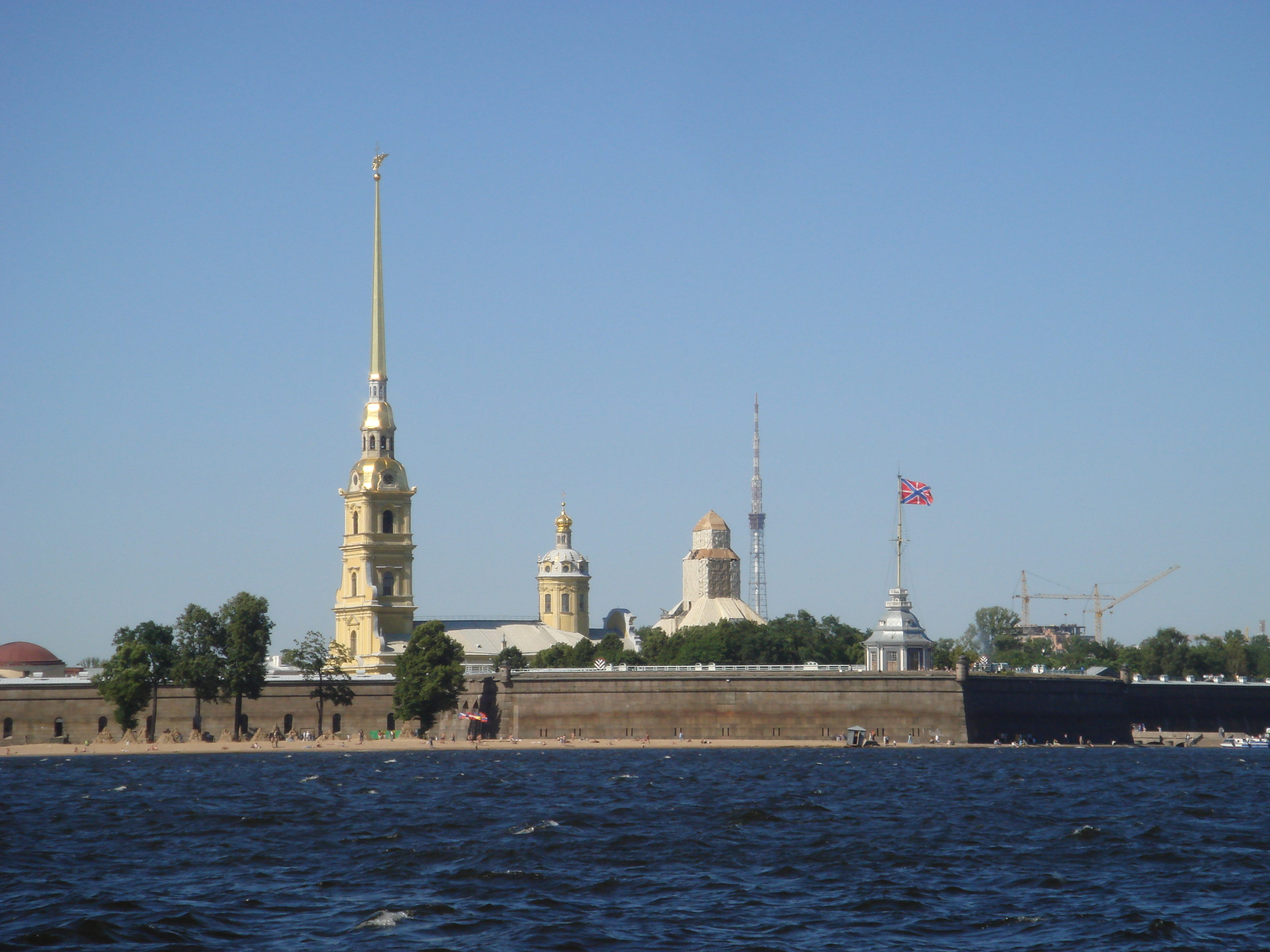 Peter and Paul Fortress (Saint Petersburg, Russia).